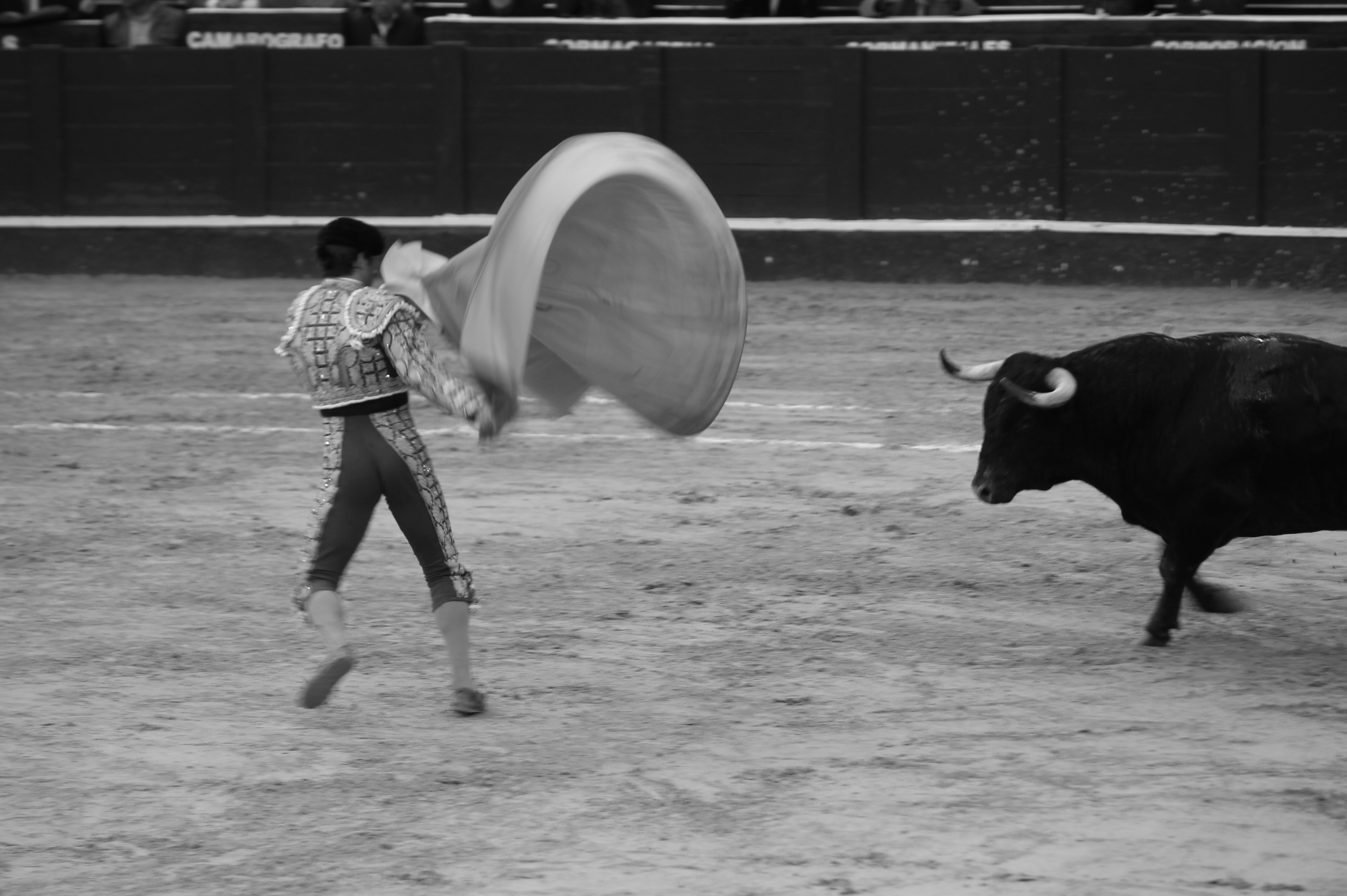 Zapopinas (lopecinas) de Julián López el Juli, en la última de abono en Bogotá